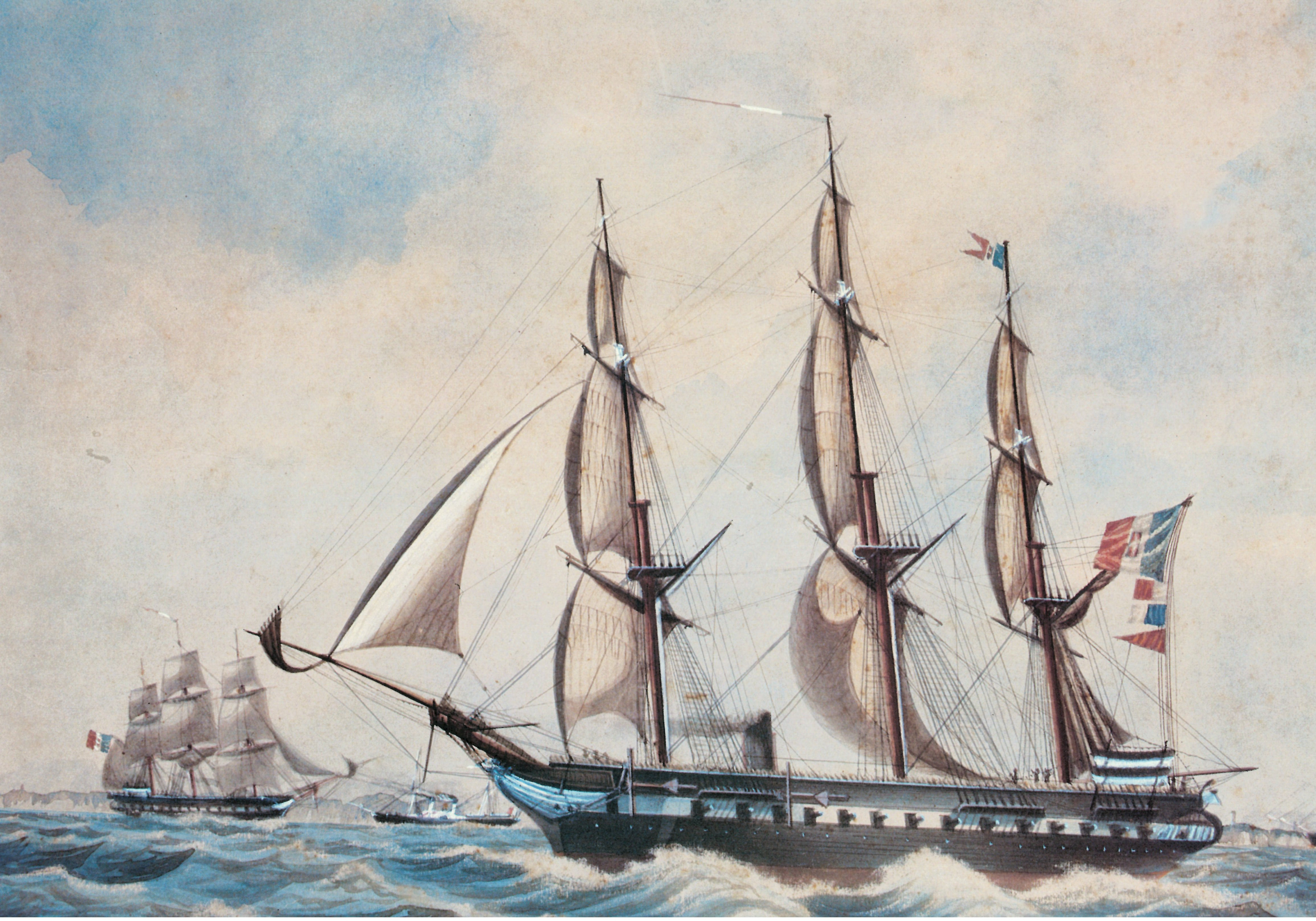 Steam frigate "Vittorio Emanuele" of the Italian Royal Navy, 1861 (watercolor on cardboard)